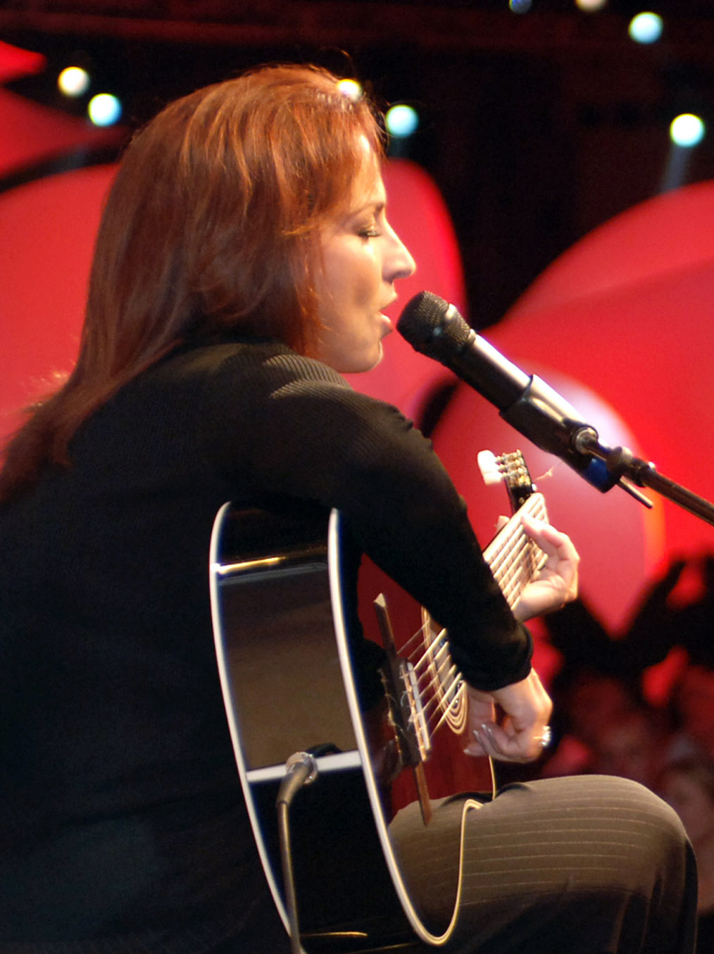 060915-N-6266K-001 Norfolk, Virginia. (14 September 2006) - Grammy-winning recording artist Gloria Estefan performs for the crew and their families during a special event to celebrate the United Through Reading program aboard the Nimitz class aircraft carrier USS Theodore Roosevelt (CVN-71). U.S. Navy photo by Mass Communication Specialist 2nd Class Joshua Kelsey (RELEASED)